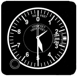 Drawing of an altimeter The gauge is indicating 14500 feet altitude over a sea level point where the air pressure must be 29.48 inHg.